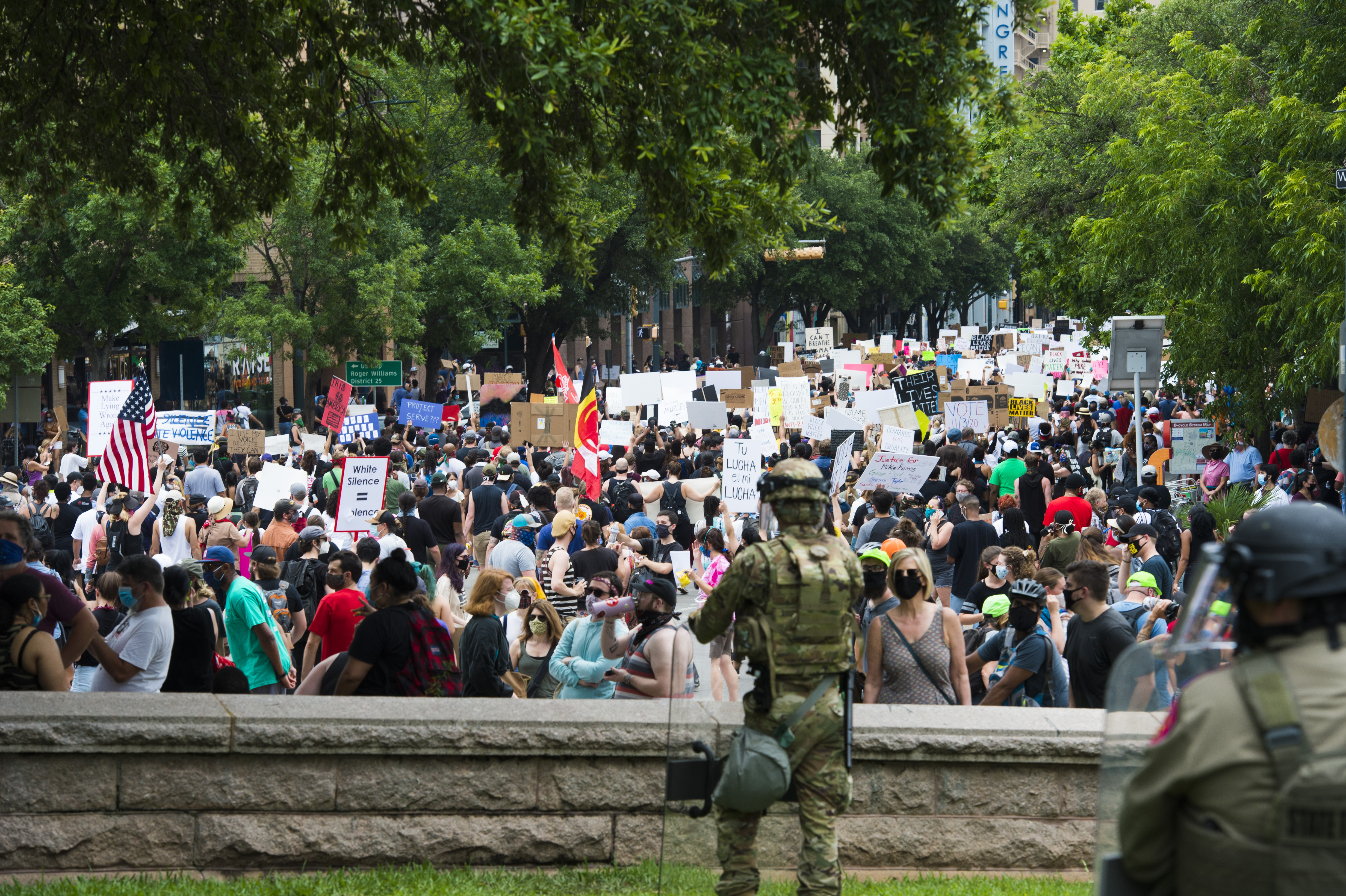 Military police Soldiers attached to the Texas Army National Guard's 136th Maneuver Enhancement Brigade support local law enforcement during a protest in Austin, Texas, on May 31, 2020. On May 30, 2020, Governor Greg Abbott activated elements of the Texas National Guard to augment law enforcement throughout the state in response to civil unrest. The Texas National Guard will be used to support local law enforcement and protect critical infrastructure necessary to the well-being of local communities. (U.S. Army photo by Charles E. Spirtos)